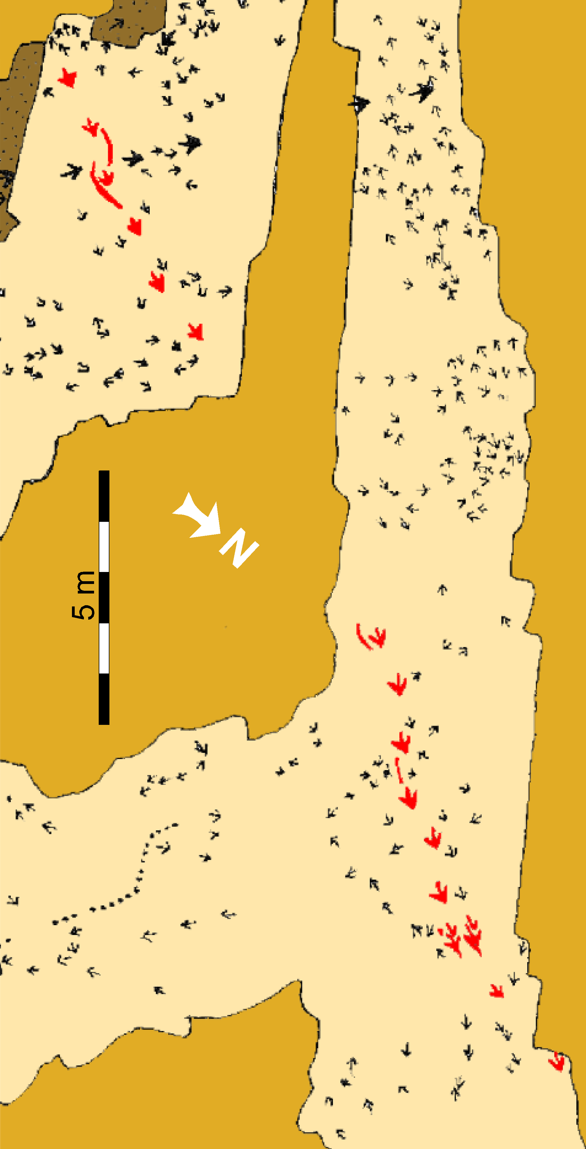 Schematic map of the “Top Surface” tracksite (SGDS.18). Beige shaded areas represent the “Top Surface” of the Main Track-bearing Sandstone Bed; gold shaded areas are unexcavated; brown areas represent areas removed after mapping to examine lower horizons. The Eubrontes trackway that includes the crouching trace is highlighted in red.